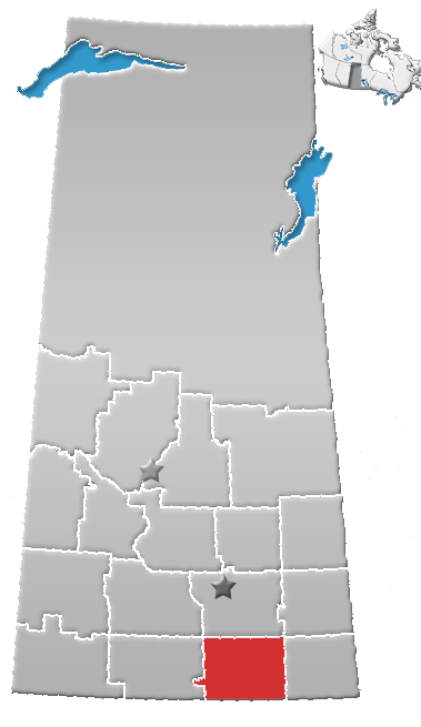 Saskatchewan census area No. 02